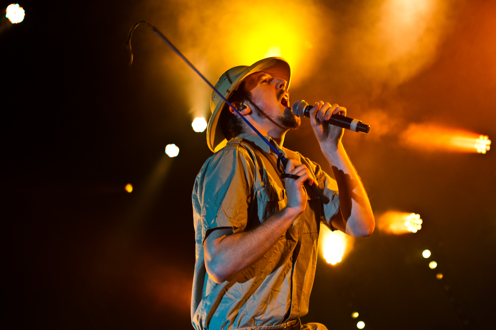 Lukas Strobel (Alligatoah) in the Turbinenhalle Oberhausen